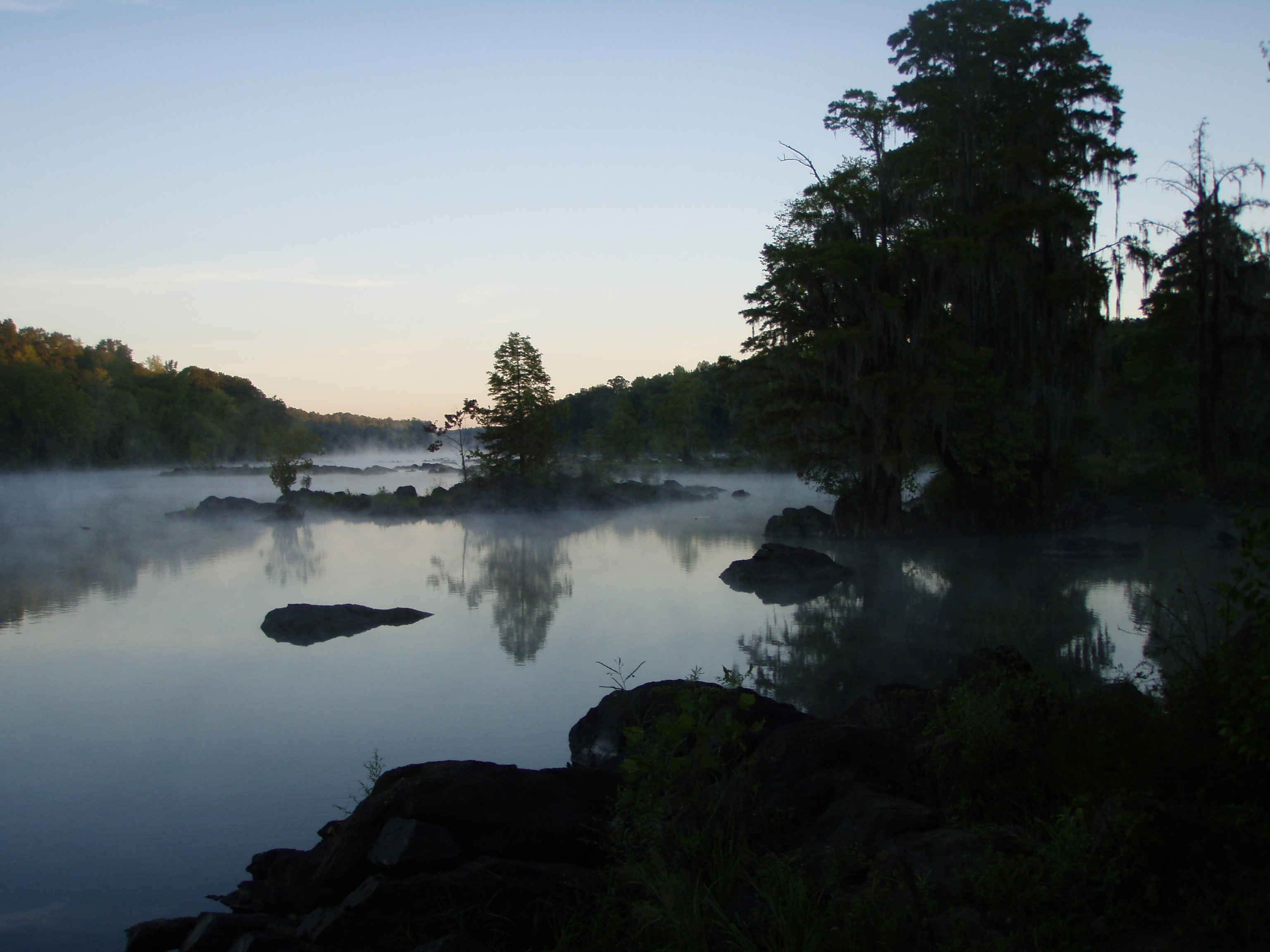 Coosa River Dawn Near Jordan Dam